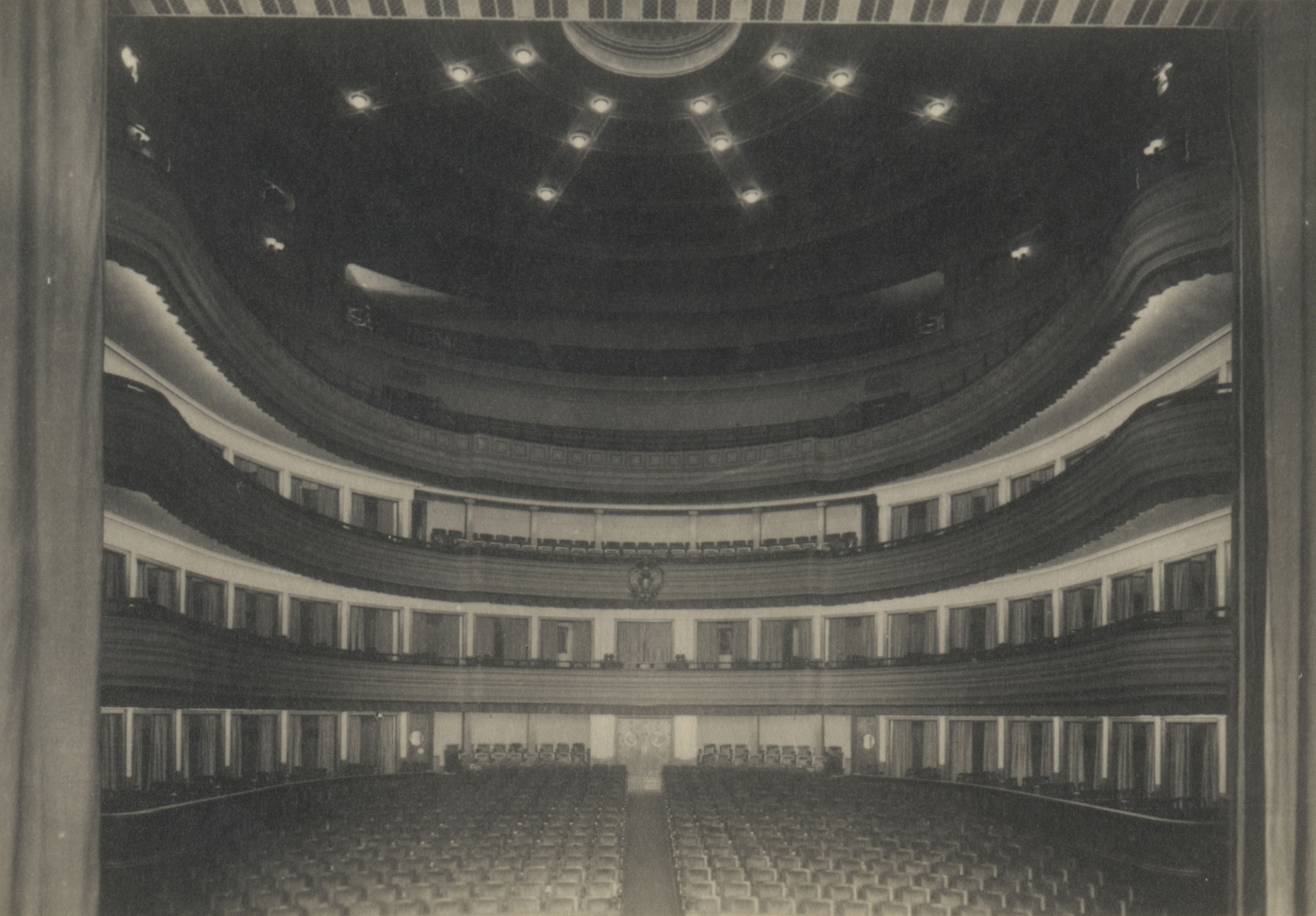 Pérez Galdós Theater, view of the seats from the proscenium. Las Palmas de Gran Canaria (Gran Canaria), Canary Islands, Spain.